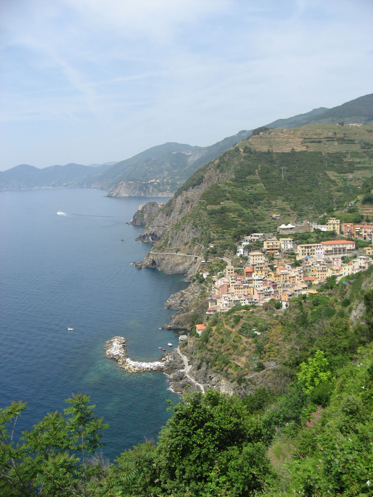 View of the Cinque Terre Mediterranean shoreline from above Riomaggiore.